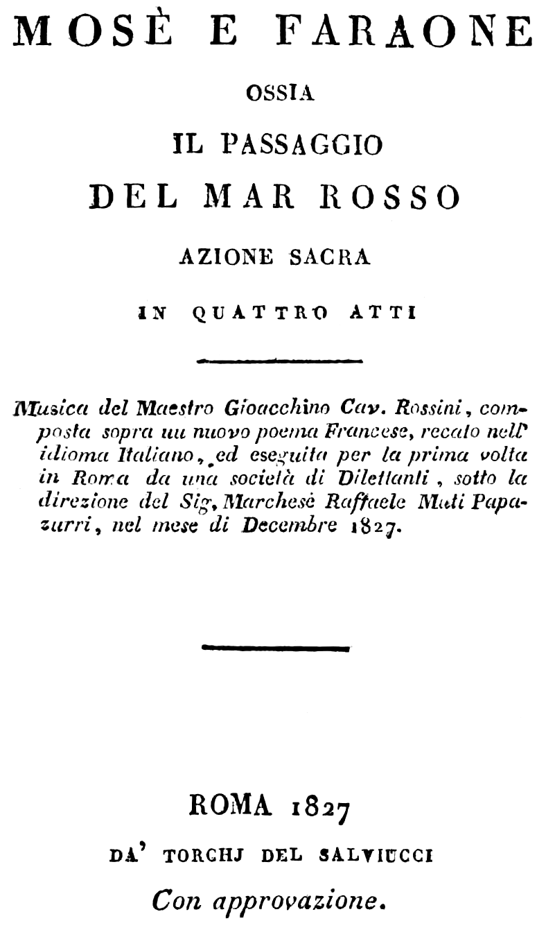 Gioachino Rossini - Moïse et Pharaon - titlepage of the libretto - Rome 1827